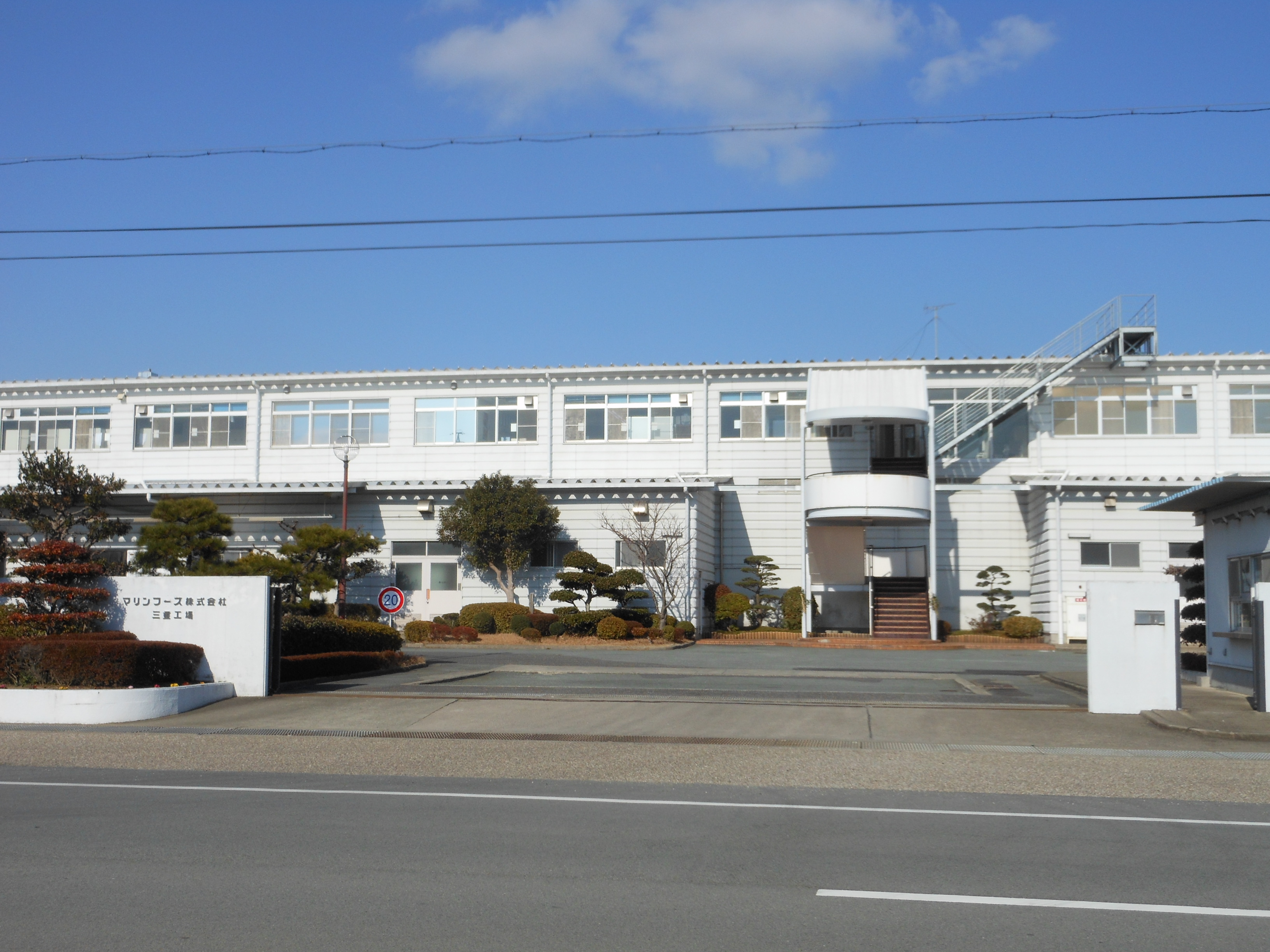 This photo is The Marine Foods Corp. Mie Factory in Tsu, Mie, Japan.